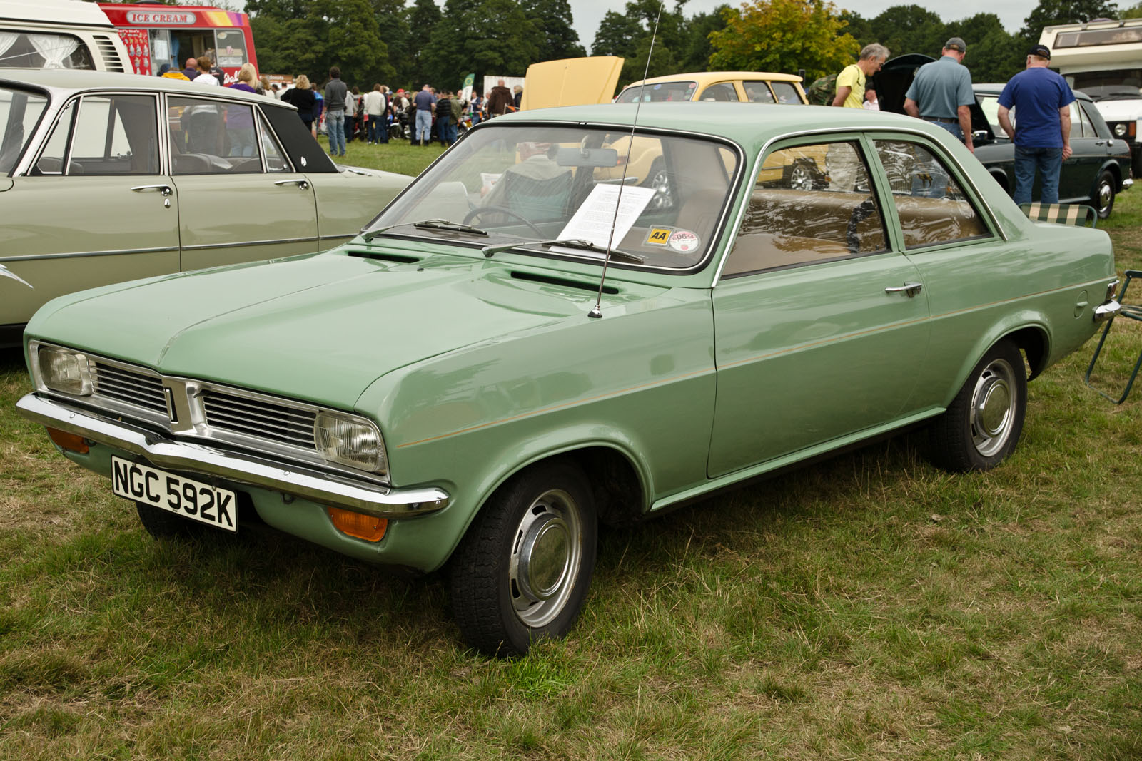 Cholmondeley Classic Car Show 01/09/2013